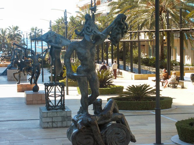 Bronze statues by Salvador Dali in Av. del Mar, Marbella.